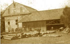 1860 photo of destroyed (1865?) mill. Public domain because of age. From website The mill is War Eagle Mill near Bentonville, AR